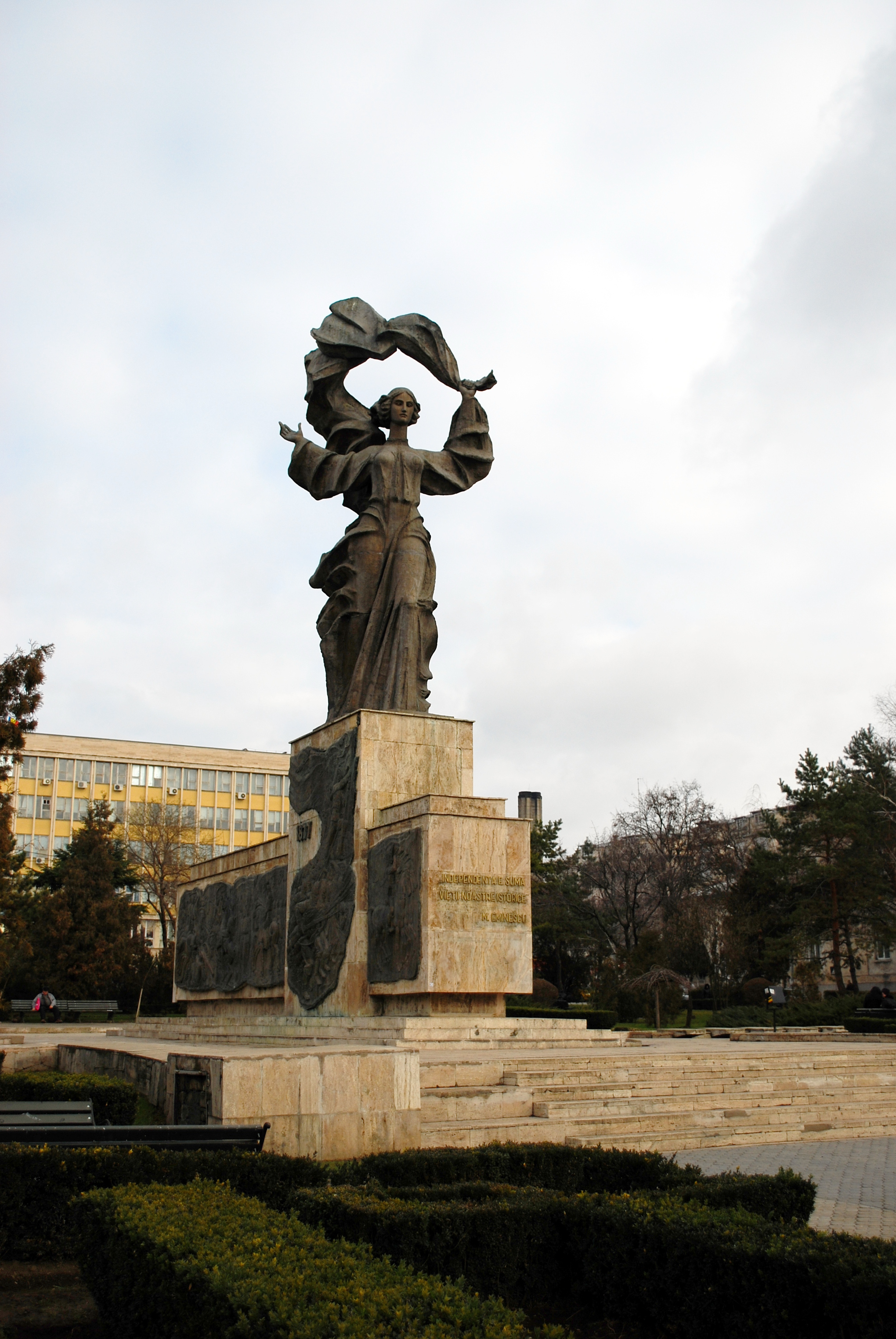 The independence monument in Iaşi, Romania